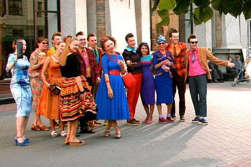 Oksana Akinshina and Igor Voynarovsky on Independence avenue, Minsk (production of "Stilyagi")